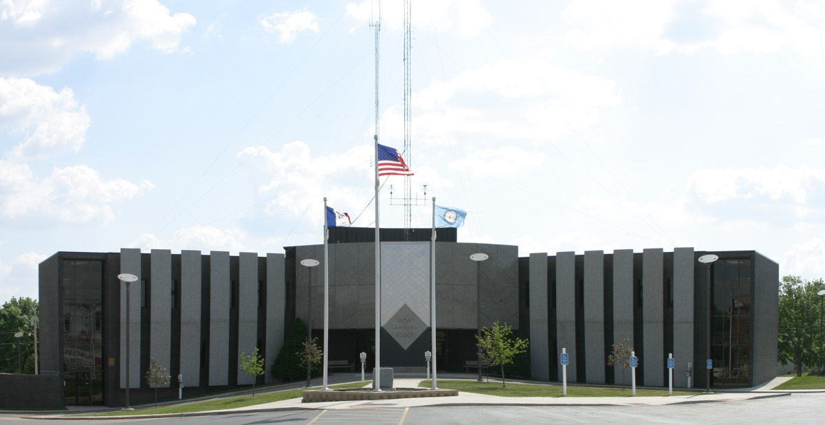 Former County courthouse for Story County, Iowa.